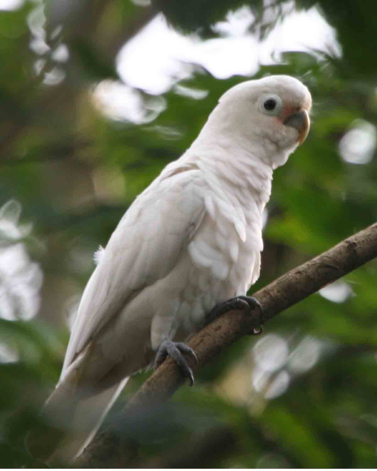 Tanimbar Corella (Cacatua goffiniana), also known as Goffin's Cockatoo or Tanimbar Cockatoo, in the Central catchment area, Singapore. Malay: Kakatua Tanimbar. This bird is probably descended from escapees. Normally found in Tanimbar Island, Indonesia